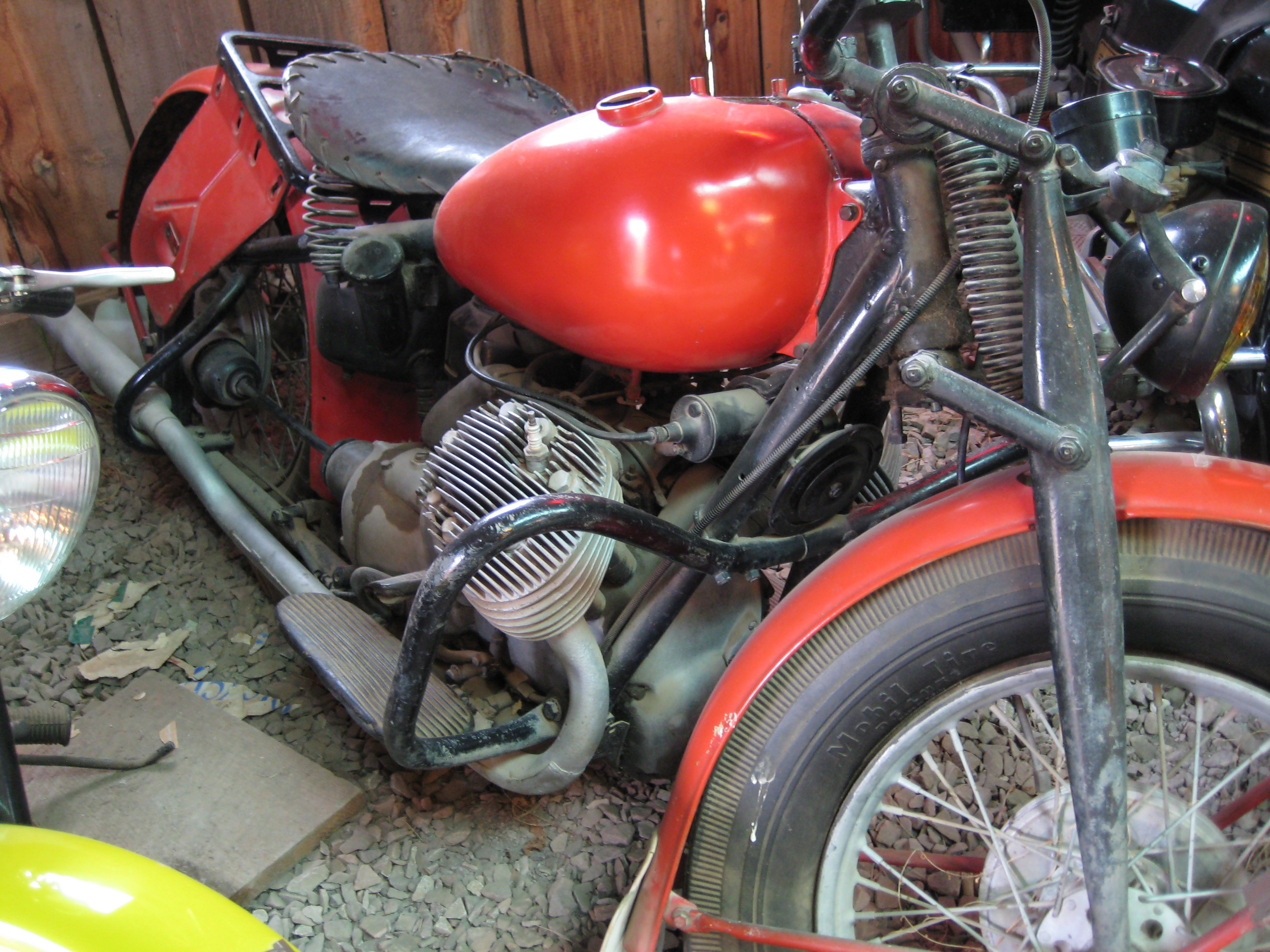 I should have taken a picture of the sign, if there was one. Much of the material in this museum is not identified and some of the signs are not entirely accurate. Several interesting motorcycles at this museum of transportation in the prairie, Pioneer Auto Show, of Murdo, South Dakota.